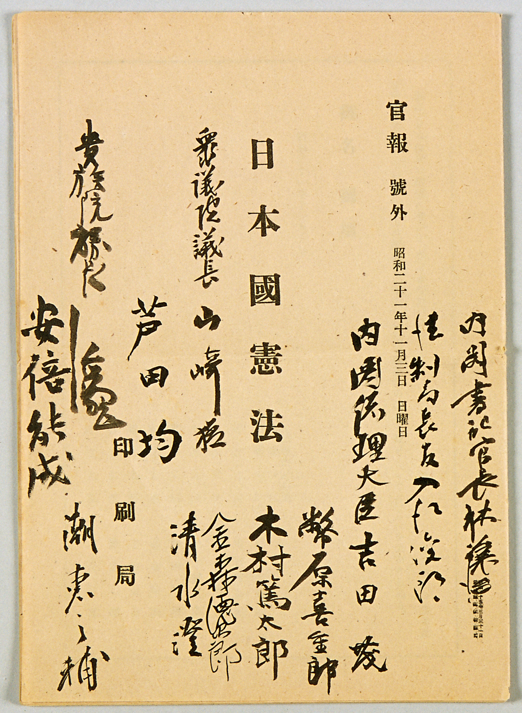 The Constitution of Japan (The Official Gazettes, a Special Edition)